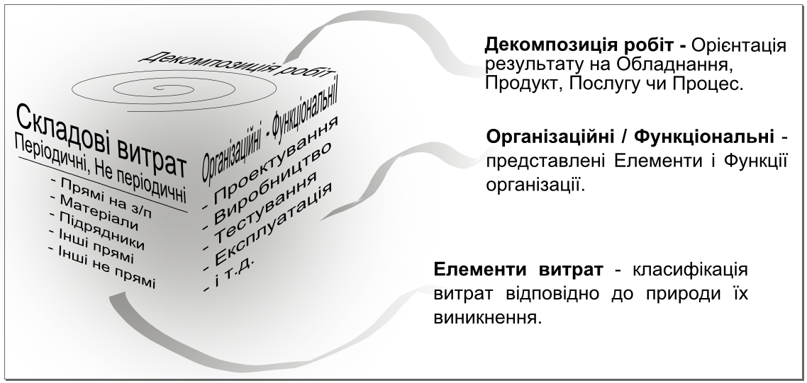 NASA NF 533 reporting structure Both NASA and the contractor, to varying degrees, require the capability of providing an array of data from a single base, as illustrated in Figure 2, which can identify costs by organization or function, contract work breakdown structure (WBS), and type of element. The NF 533 reporting structure, therefore, shall be a matrix that provides adequate management visibility into the appropriate combination of these data. The WBS is a family tree subdivision of effort required to achieve an objective (e.g., program, project, and contract). It may be hardware, product, service, or process oriented. For a contract, the WBS is developed by starting with the end objective and successively subdividing it into manageable components in terms of size, duration, and responsibility (e.g., systems, subsystems, components, tasks, subtasks, and work packages) which include all steps necessary to achieve the objective. It provides a common framework for the natural development of the overall planning and control of a contract and is the basis for dividing work into definable increments from which the statement of work can be developed and technical, schedule, cost, and labor hour reporting can be established.